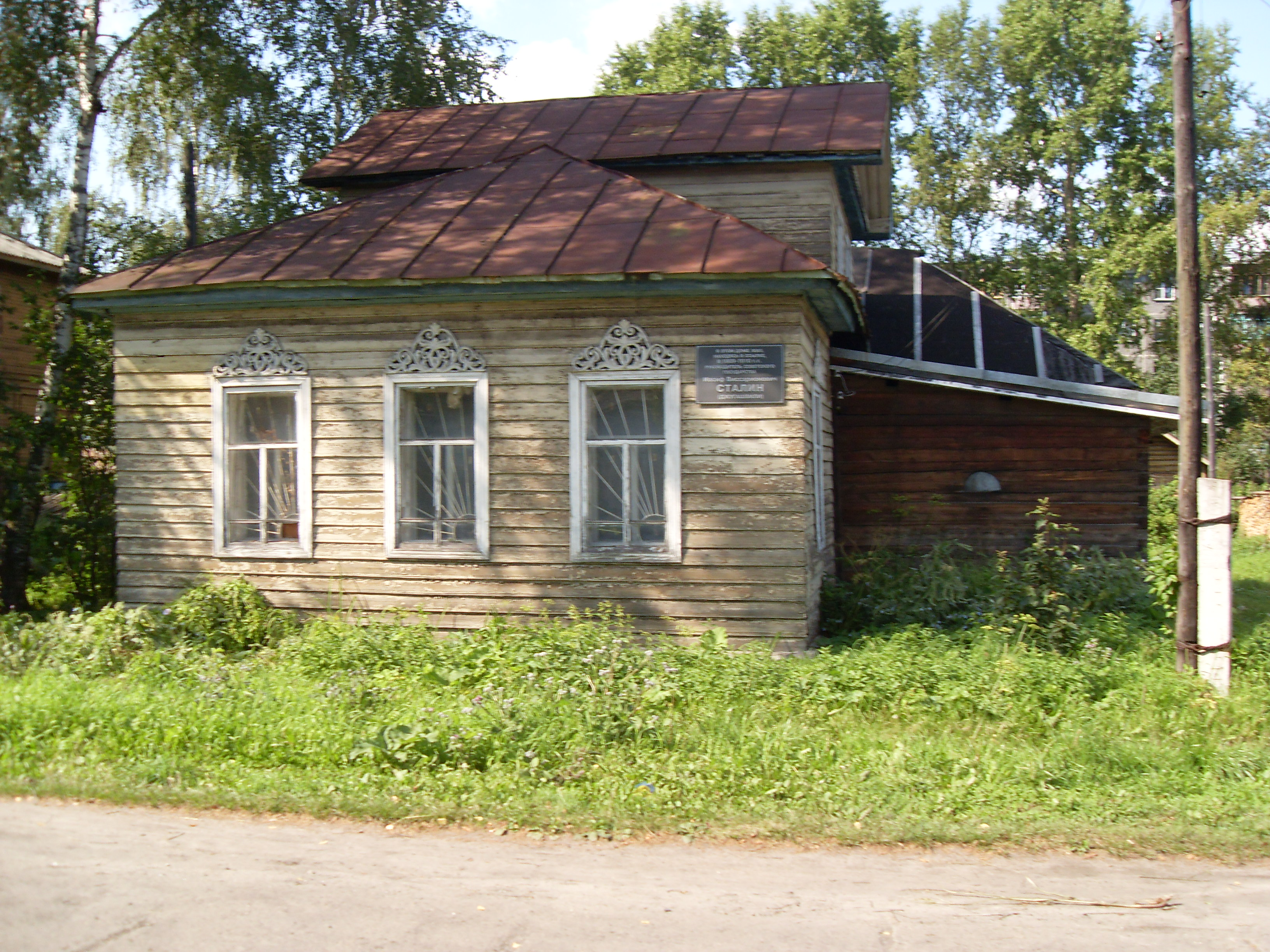 The house in Solvychegodsk where Stalin lived while in exile, 1909-1910.